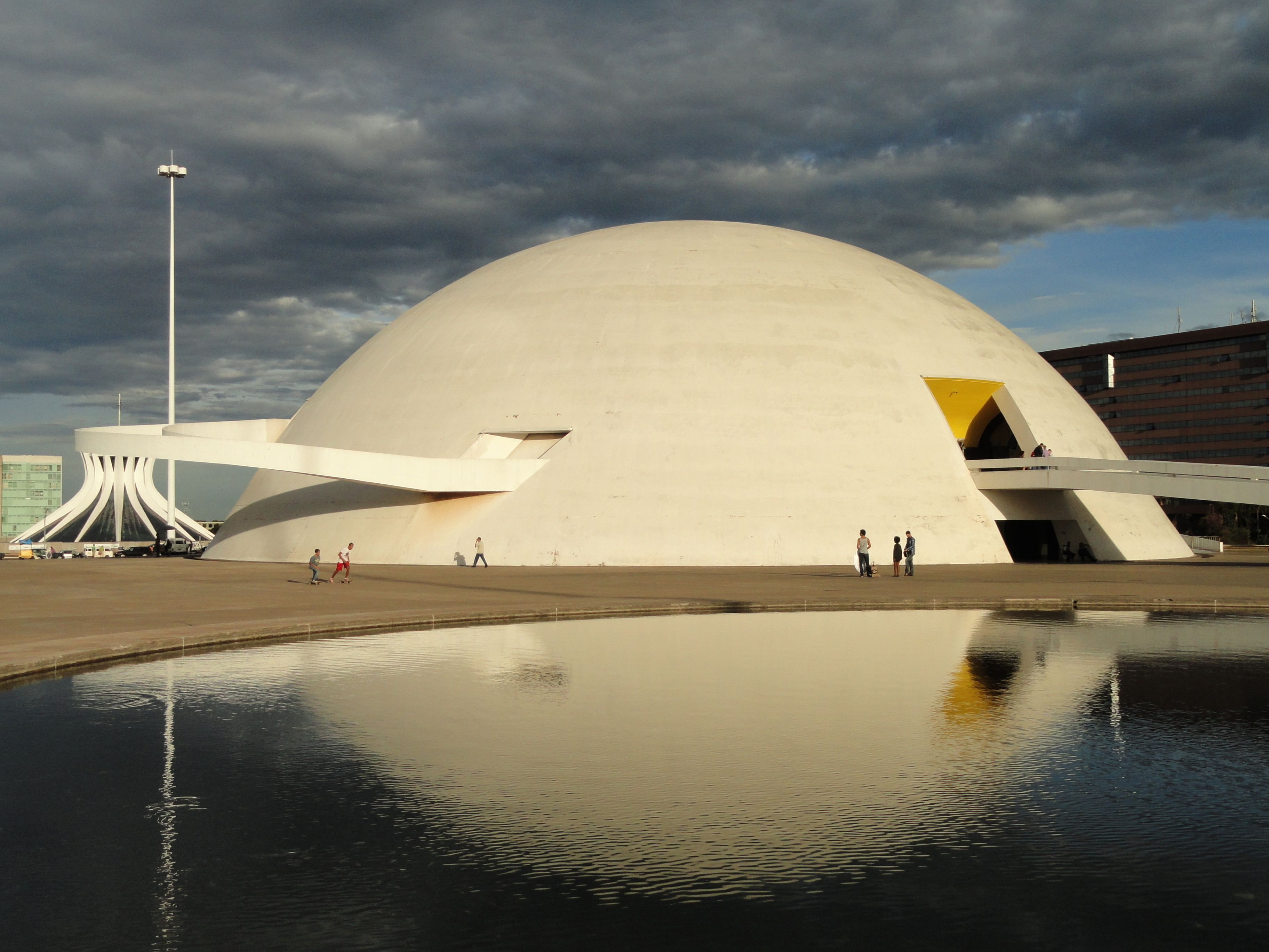 Museu Nacional Honestino Guimarães, Brasilia, Brazil.